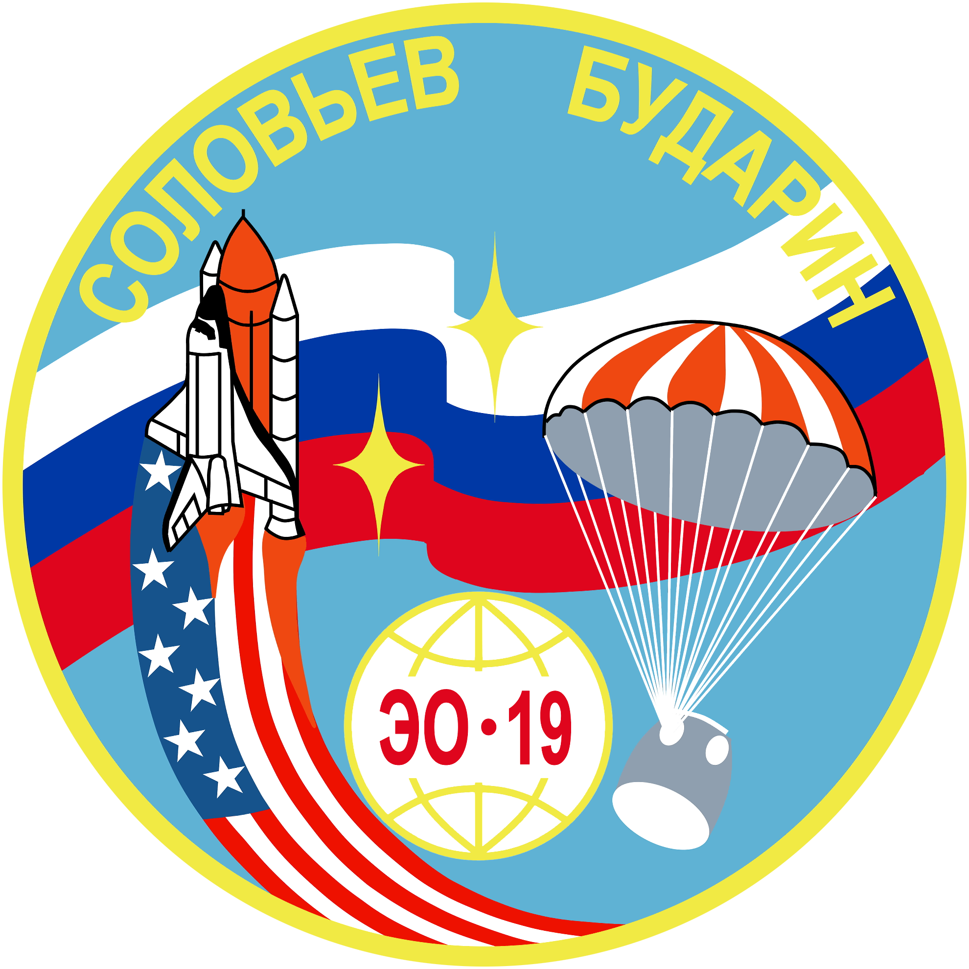 Patch for the Mir EO-19 expedition to the Mir space station in 1995. The patch was redrawn by Jorge Cartes (JCR).